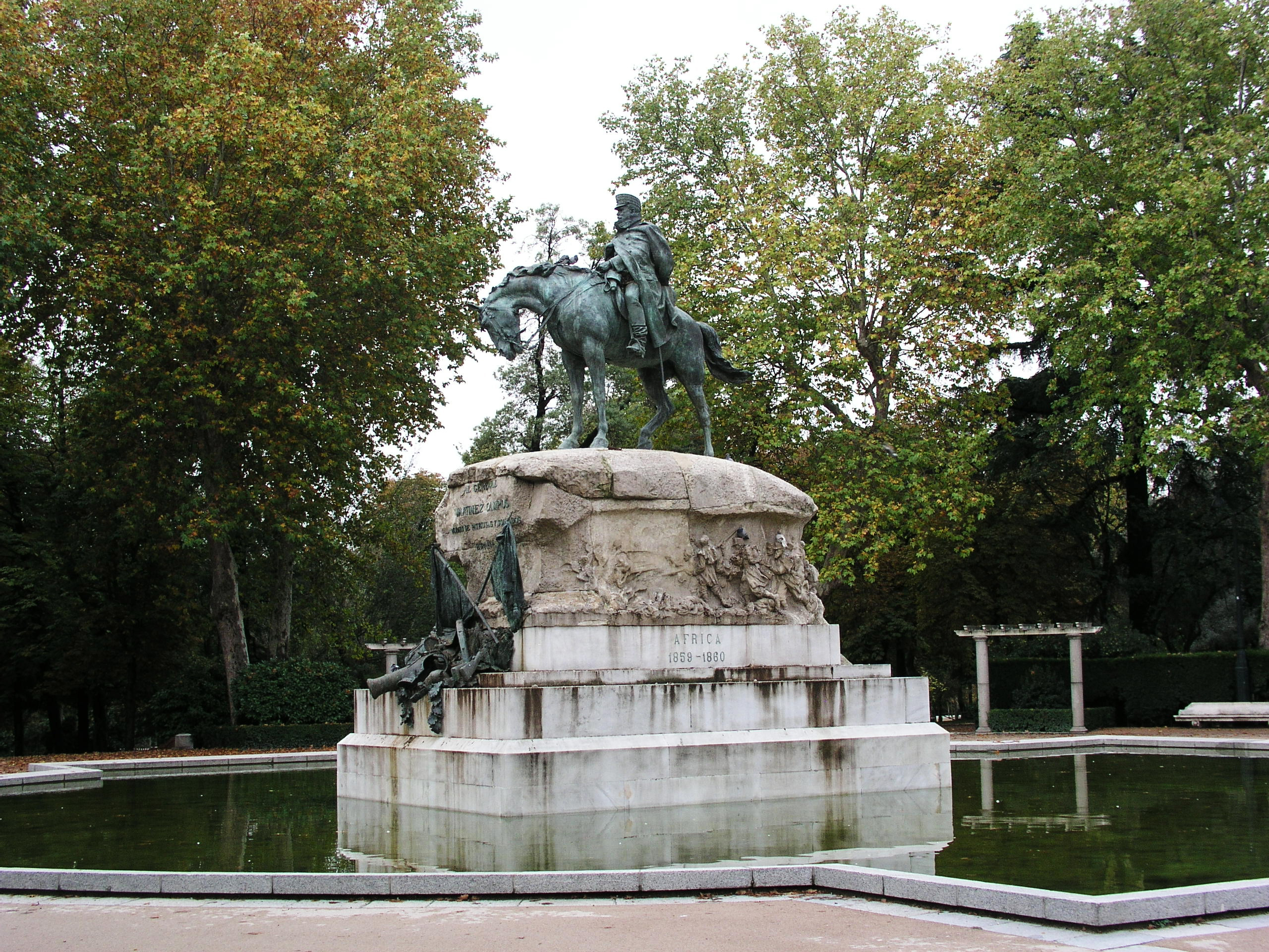 Monument to General Arsenio Martínez-Campos (1831–1900) in the Jardines del Buen Retiro in Madrid (Spain). Inaugurated in 1907. Made of flintstone, marble and bronze by sculptor Mariano Benlliure (1862–1947). Measurements: 7.00 x 5.65 x 7.40 metres.